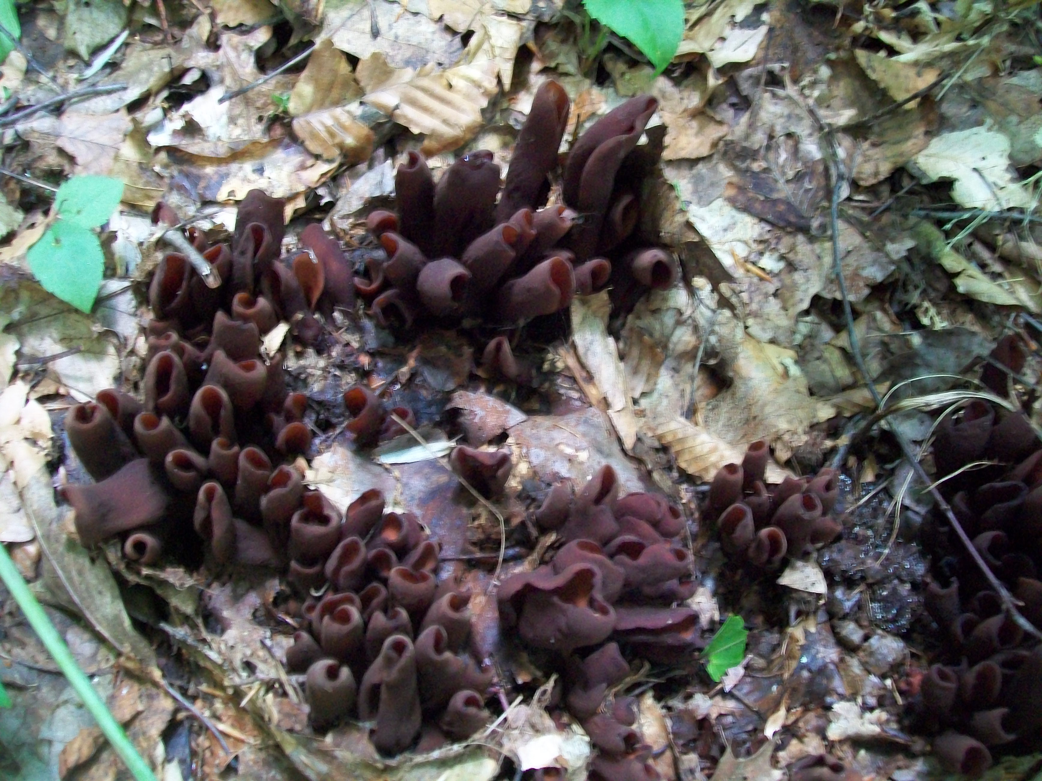 The fungus Wynnea americana Thaxt. Specimens photographed in Plum Orchard Lake, Fayette Co., West Virginia, USA.